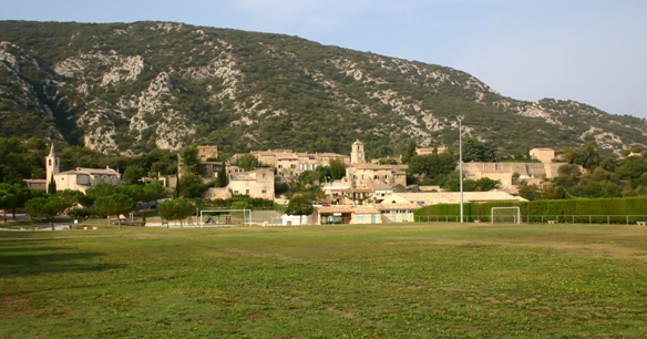 the village of Maubec (Vaucluse, France)